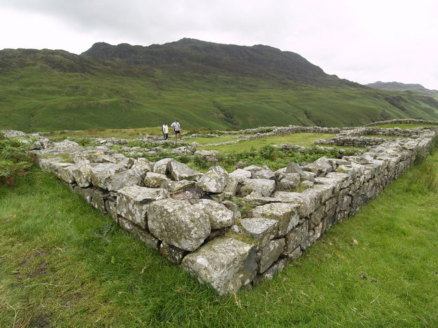 Hardknott Fort Building Wall Base